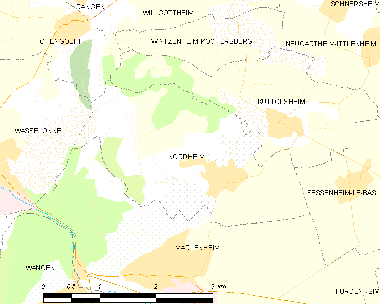 Map of French municipality